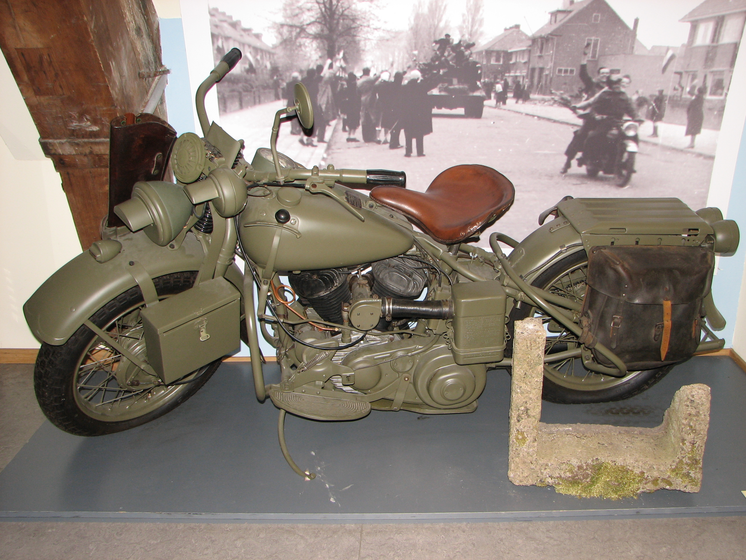 Harley Davidson "Liberator" (photo taken in the Frysk Museum, Leeuwarden